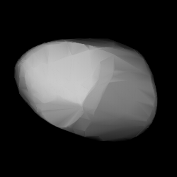 3D convex shape model of 1825 Klare, computed using light curve inversion techniques. J. Hanuš, J. Ďurech, M. Brož, B. D. Warner (June 2011). "A study of asteroid pole-latitude distribution based on an extended set of shape models derived by the lightcurve inversion method". Astronomy and Astrophysics 530: A134. ISSN 0004-6361. arXiv